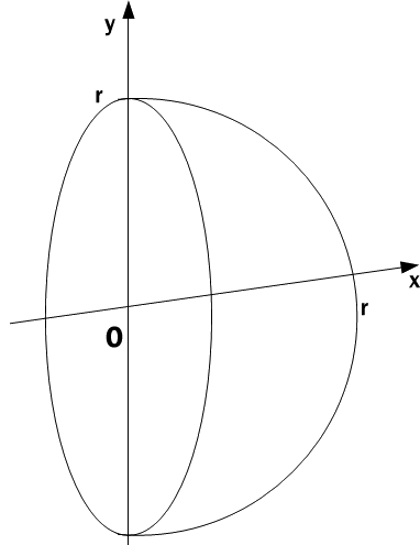 disk integration to sum the volumes of an infinite number of circular disks of infinitesimal thickness stacked centered side by side along the x axis from x = 0 where the disk has radius r (i.e. y = r) to x = r where the disk has radius 0 (i.e. y = 0).